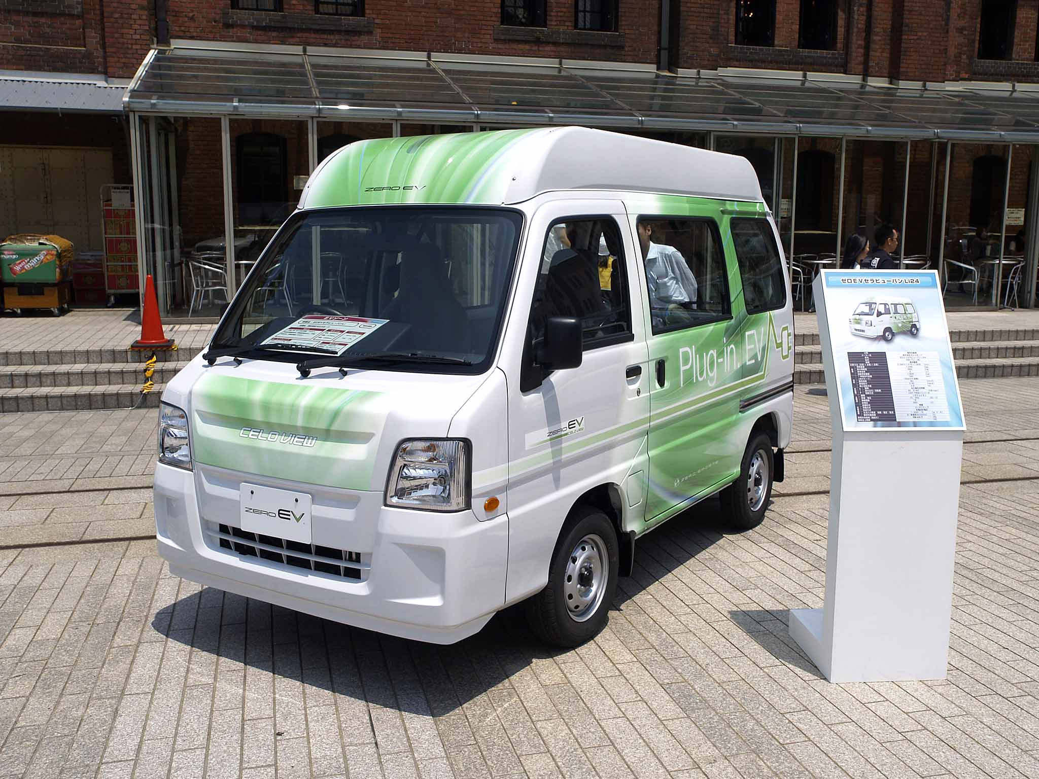 "Zero EV Celo View Li24 Plug-in EV", converted battery-powered van by ZERO Sports, based Subaru Sambar Van TV1. Displayed at Eco Car World 2010